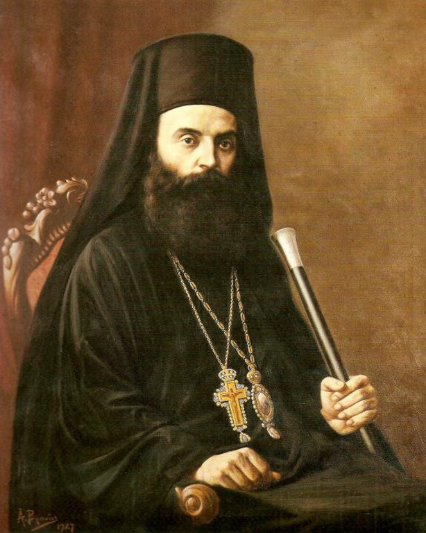 Bishop Athinagoras (later Patriarch Athenagoras I of Constantinople)